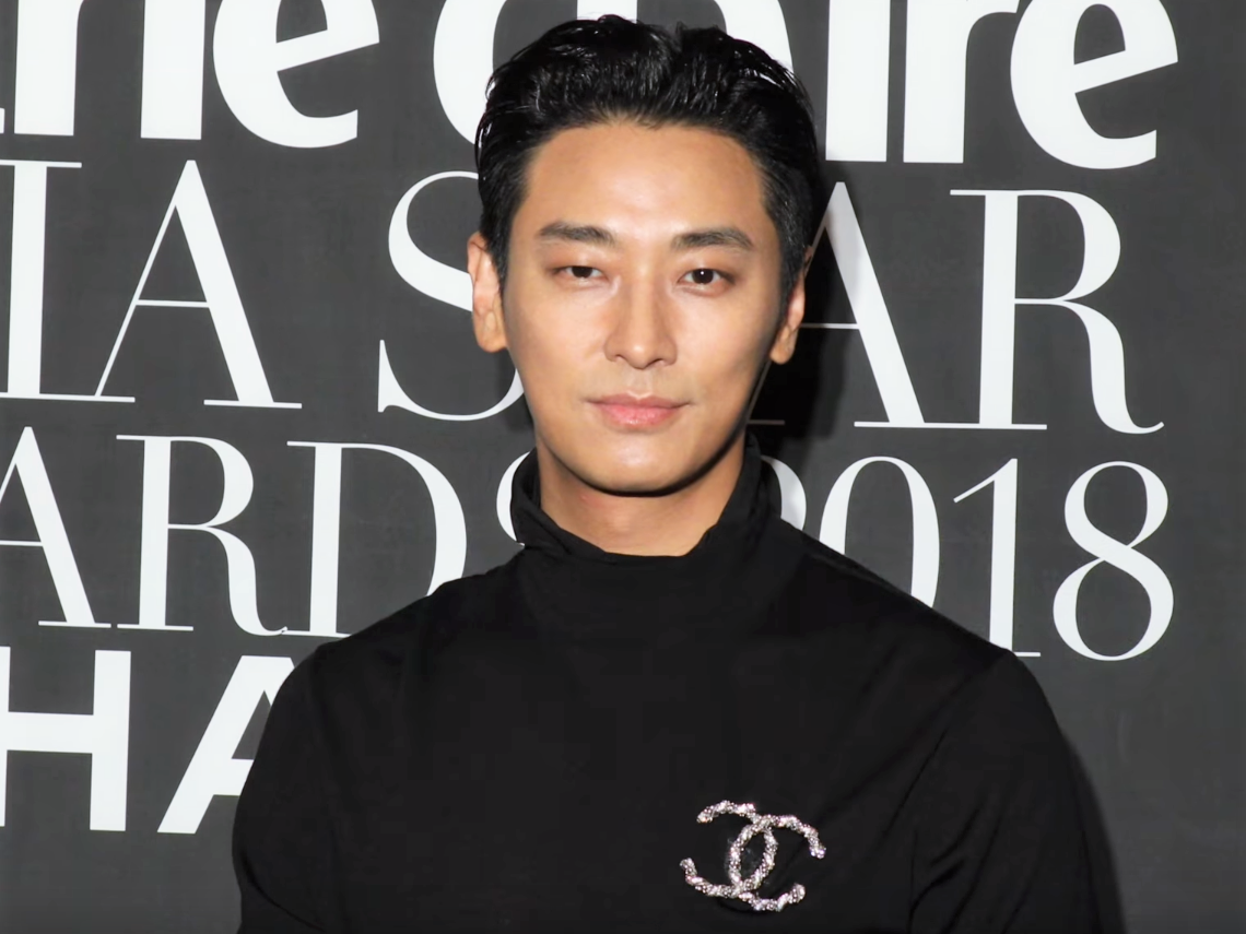 BIFF with Marie Clarie ASIA STAR AWARDS 2018 CHANEL